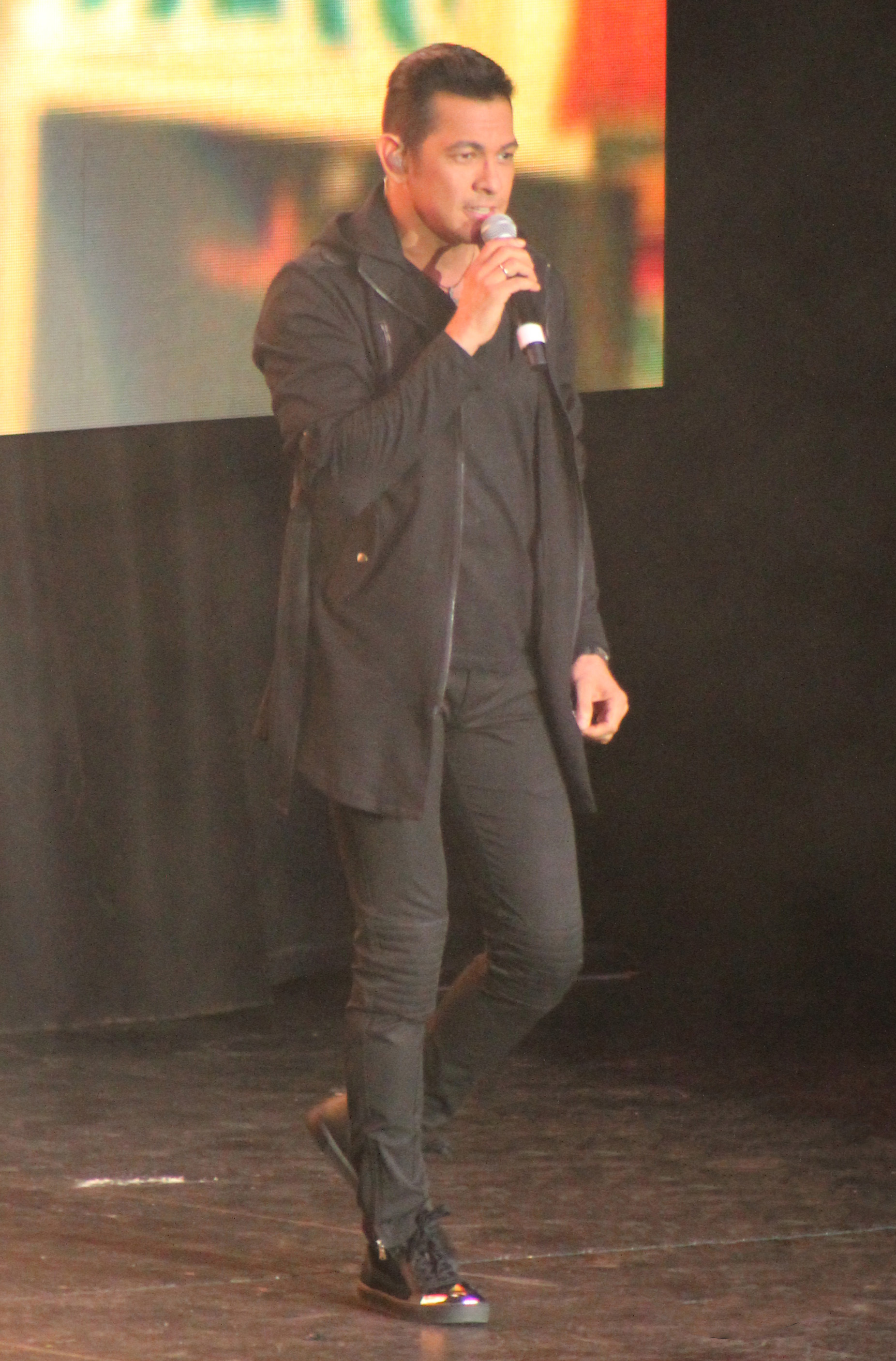 Gary V. singing during ABS-CBN's concert tour "One Kapamilya Go" in Toronto, Ontario on June 21, 2014